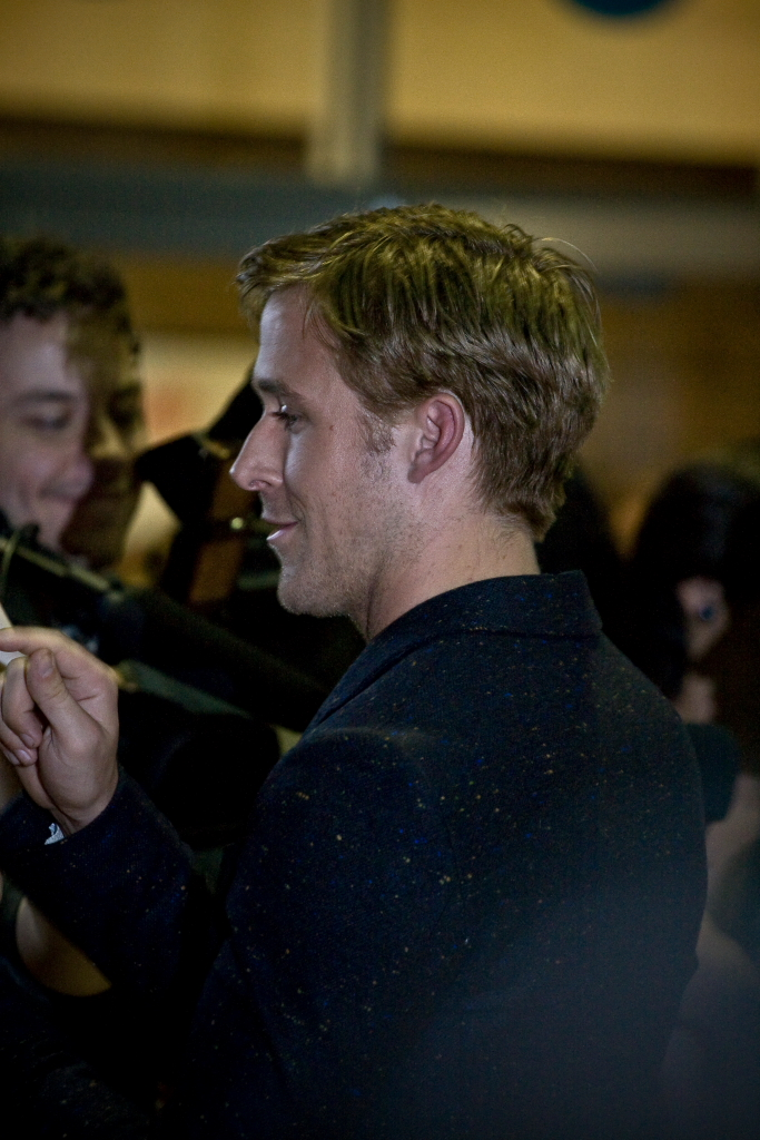 Canadian actor Ryan Gosling at the TIFF premiere of Drive on September 10, 2011.